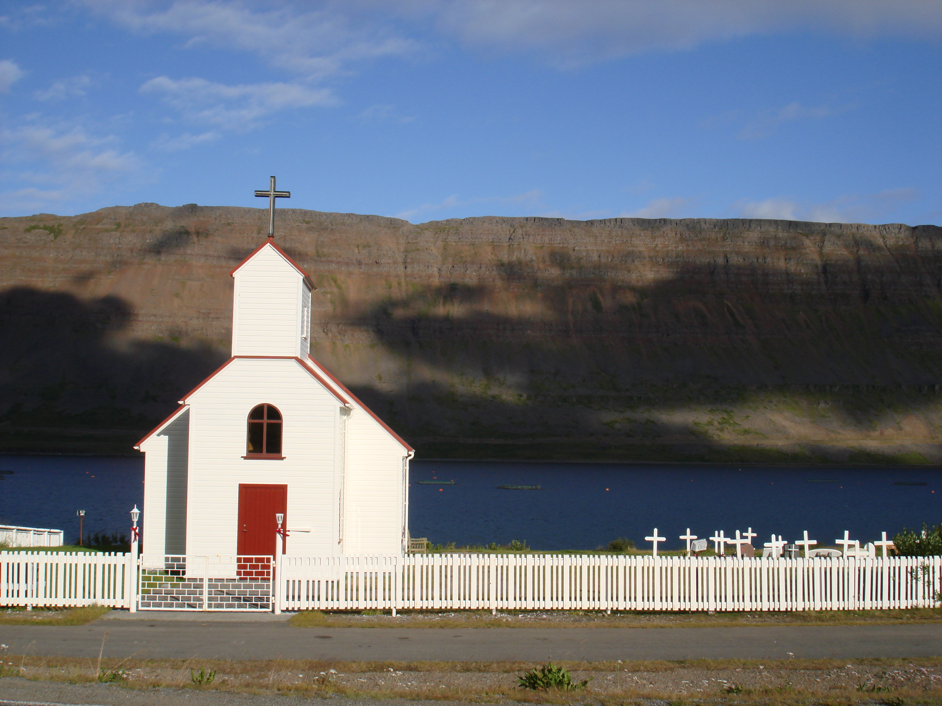 Súdavík's church, north-west Iceland